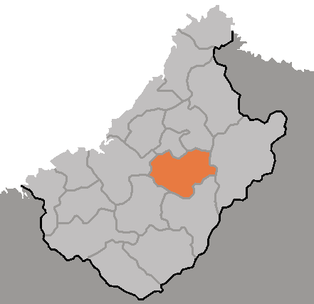 Map of Songgan, Chagang-do, DPRK, 2006